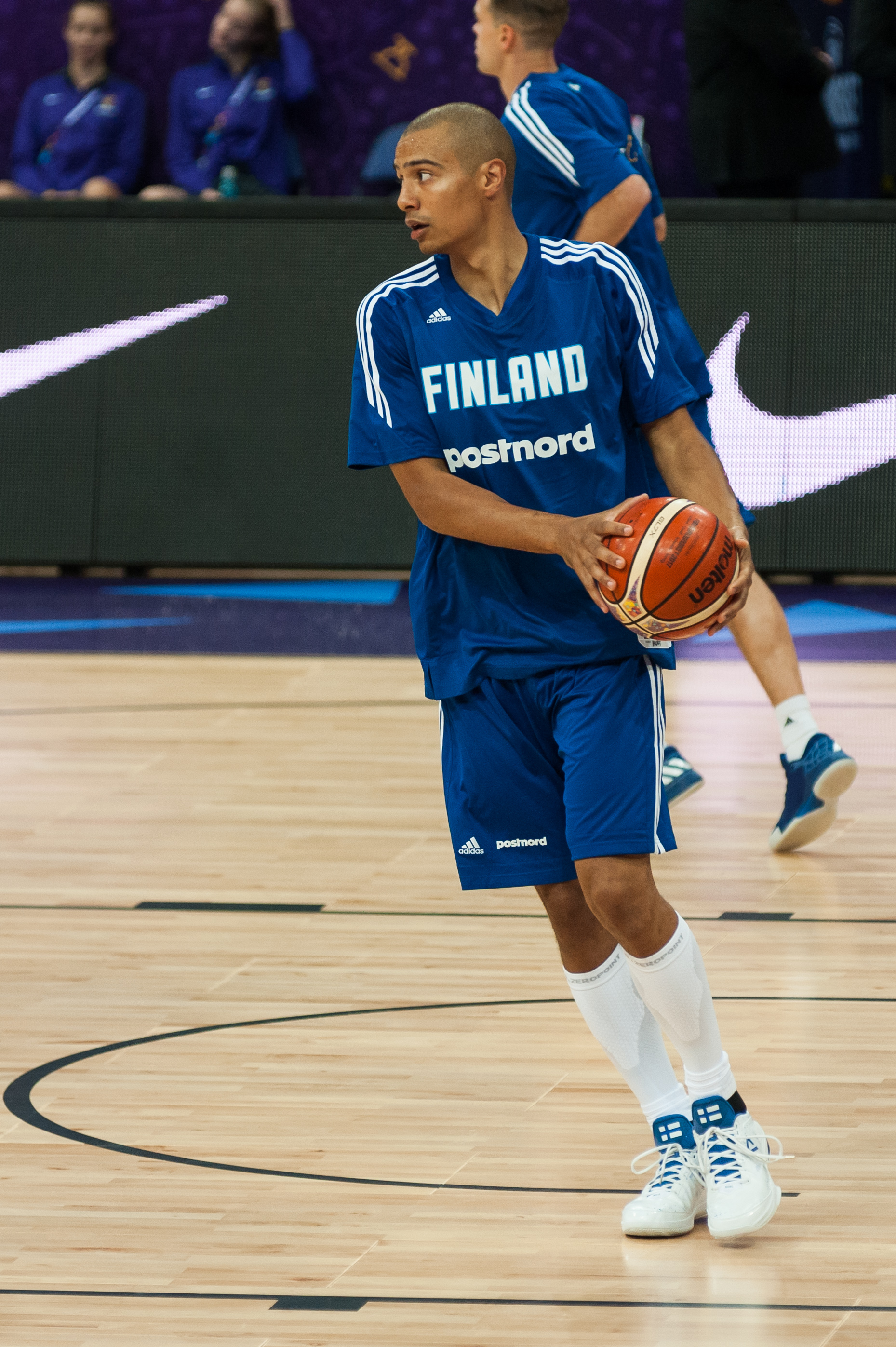 EuroBasket 2017 Group A game between France and Finland at Hartwall Arena in Helsinki, Finland.